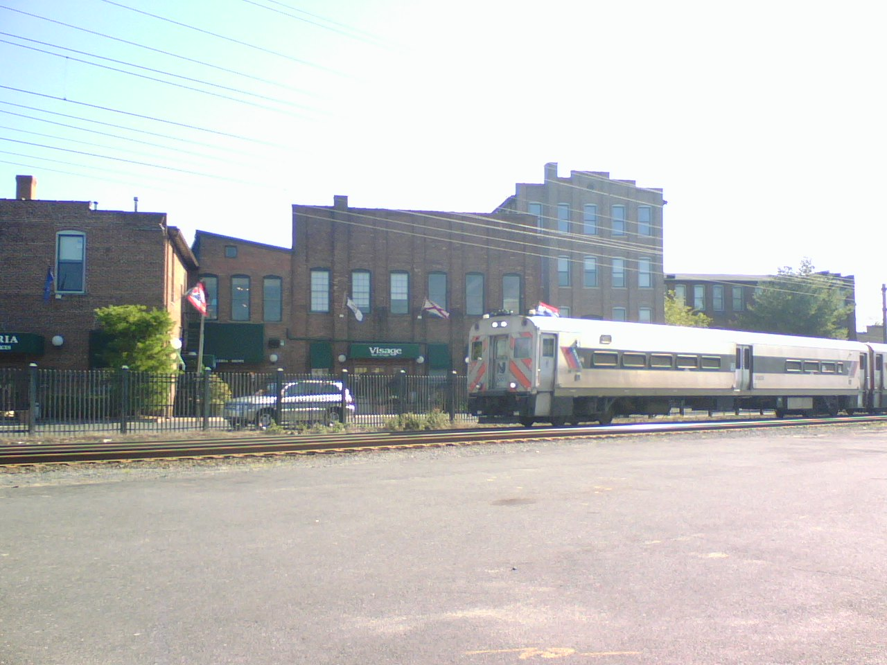 New Jersey Transit train in Red Bank